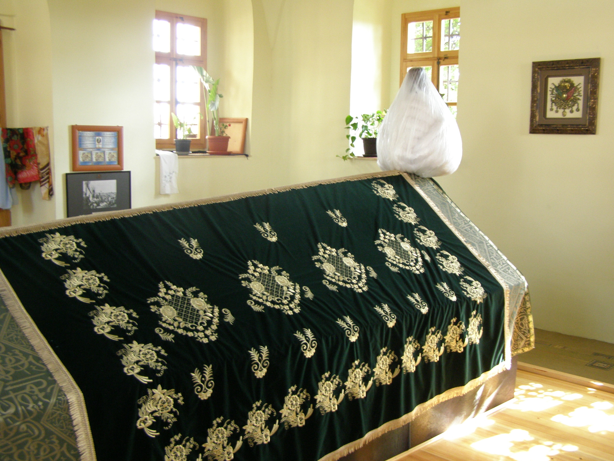 The tomb of sultan Murad I - Kosovo Polje